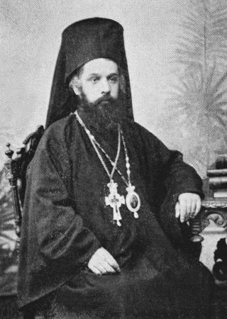 Ecumenical Patriarch Konstantinos VI